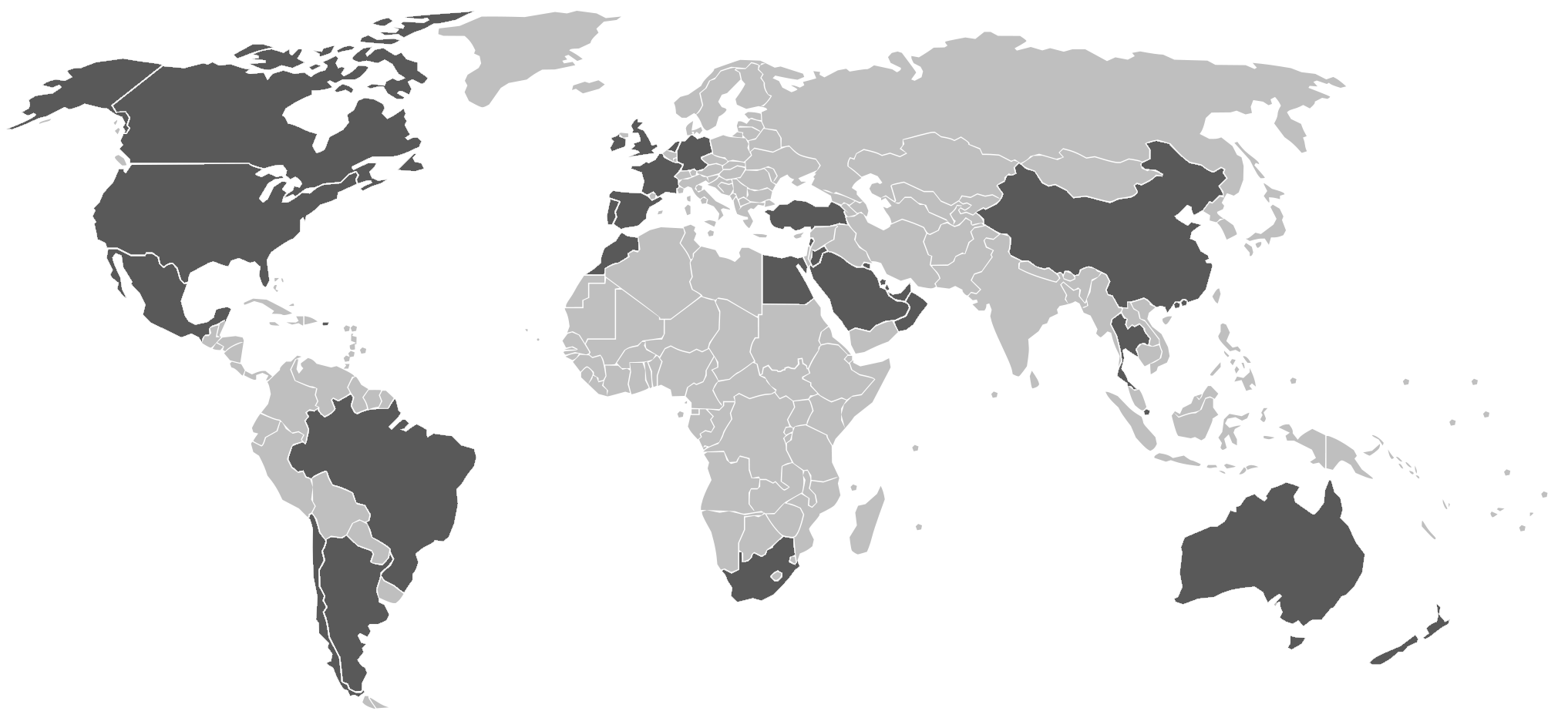 International map os Sunglass Hut in 2017, according Luxxottica